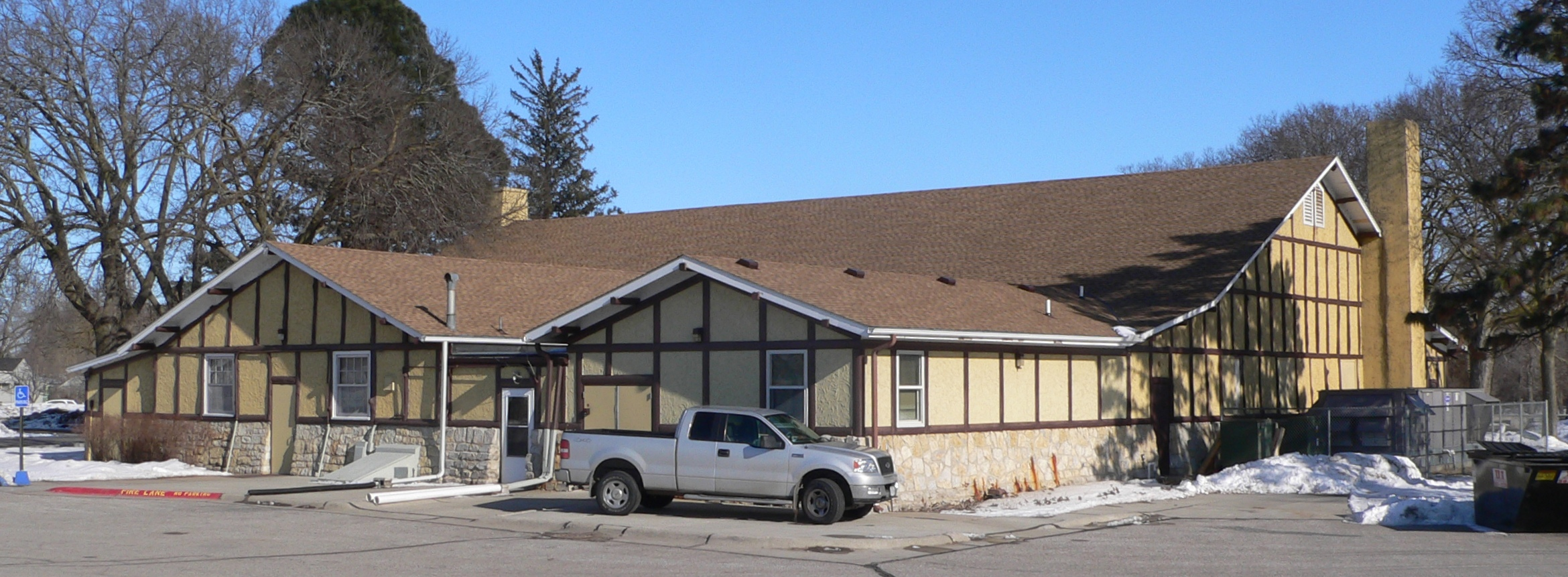 Oak Ballroom in Schuyler, Nebraska; seen from the west. (The building is not oriented north-south and east-west.) It was designed in Tudor Revival style by architect Emiel Christensen and built in 1935. The building is listed in the National Register of Historic Places.